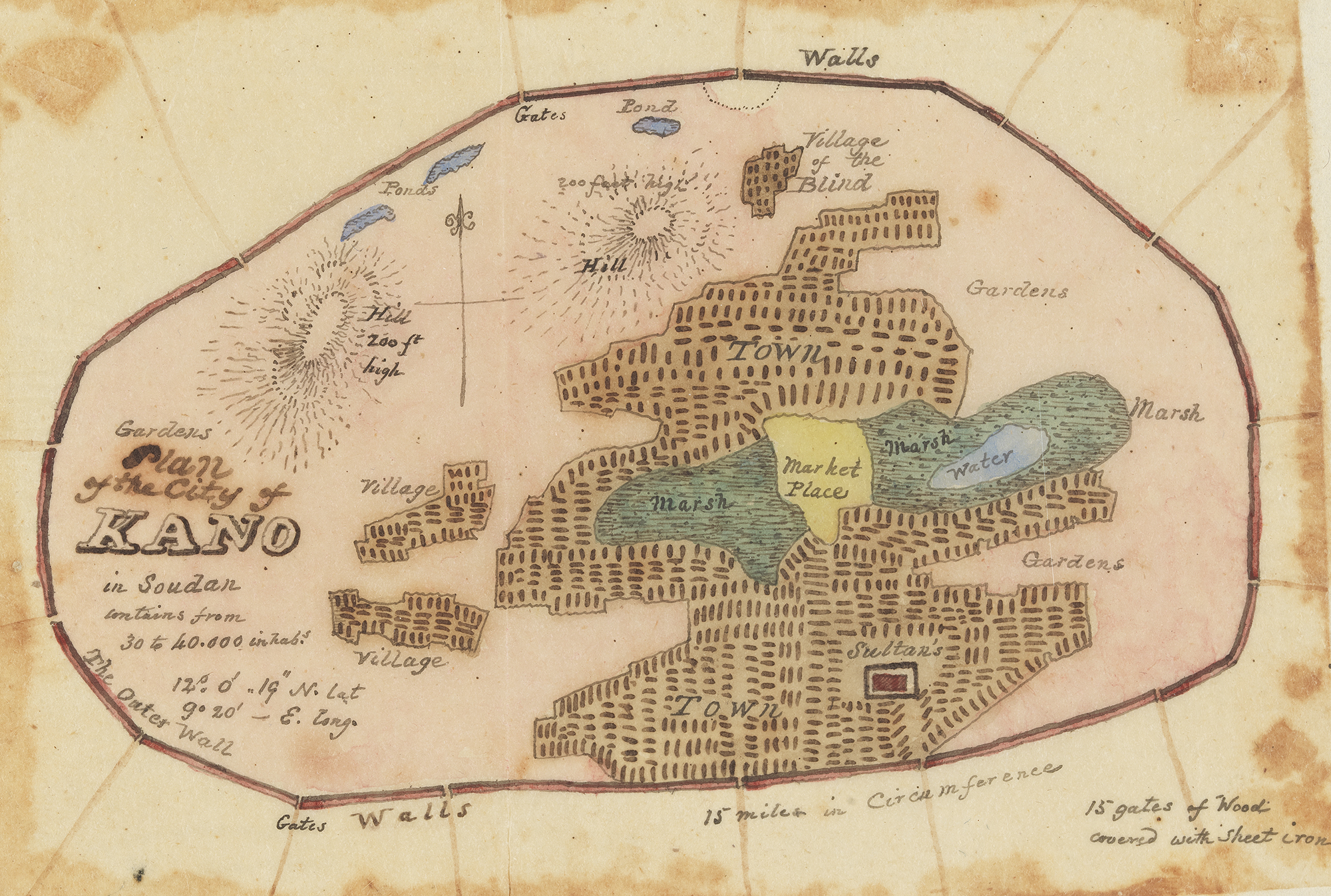 Plan of the city of Kano, Soudan, ca.1836, from 'Sketches Tasmania 1822-1847', by Thomas Scott, State Library of New South Wales PXB 216